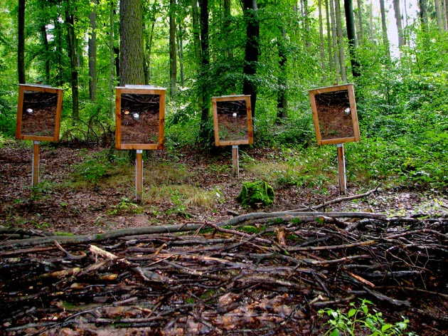 "Weg der Besinnung" (way of meditation), Bad Kissingen, Germany skulpture "pictures"